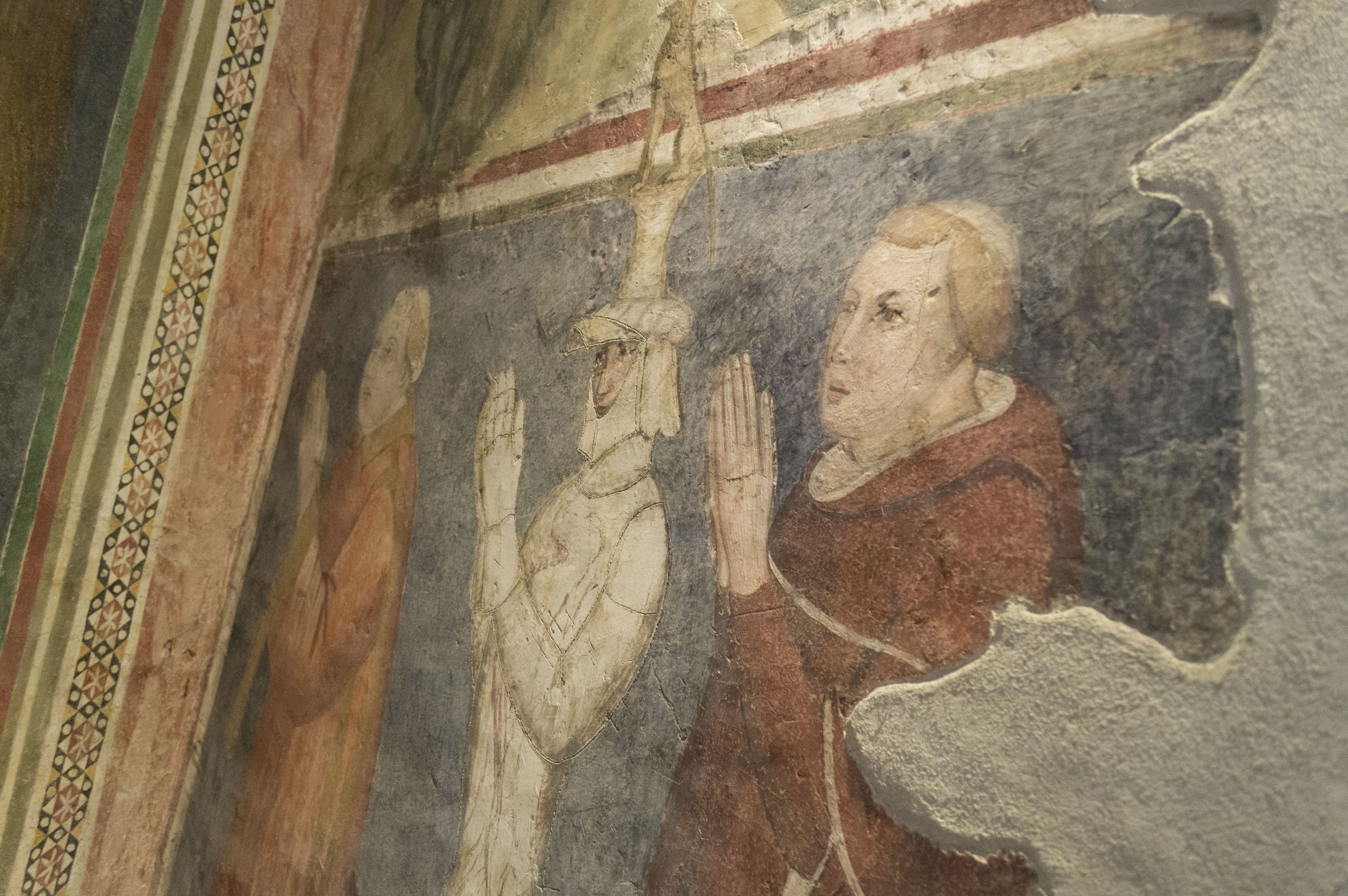 Cappella Capece Minutolo in Naples Cathedral